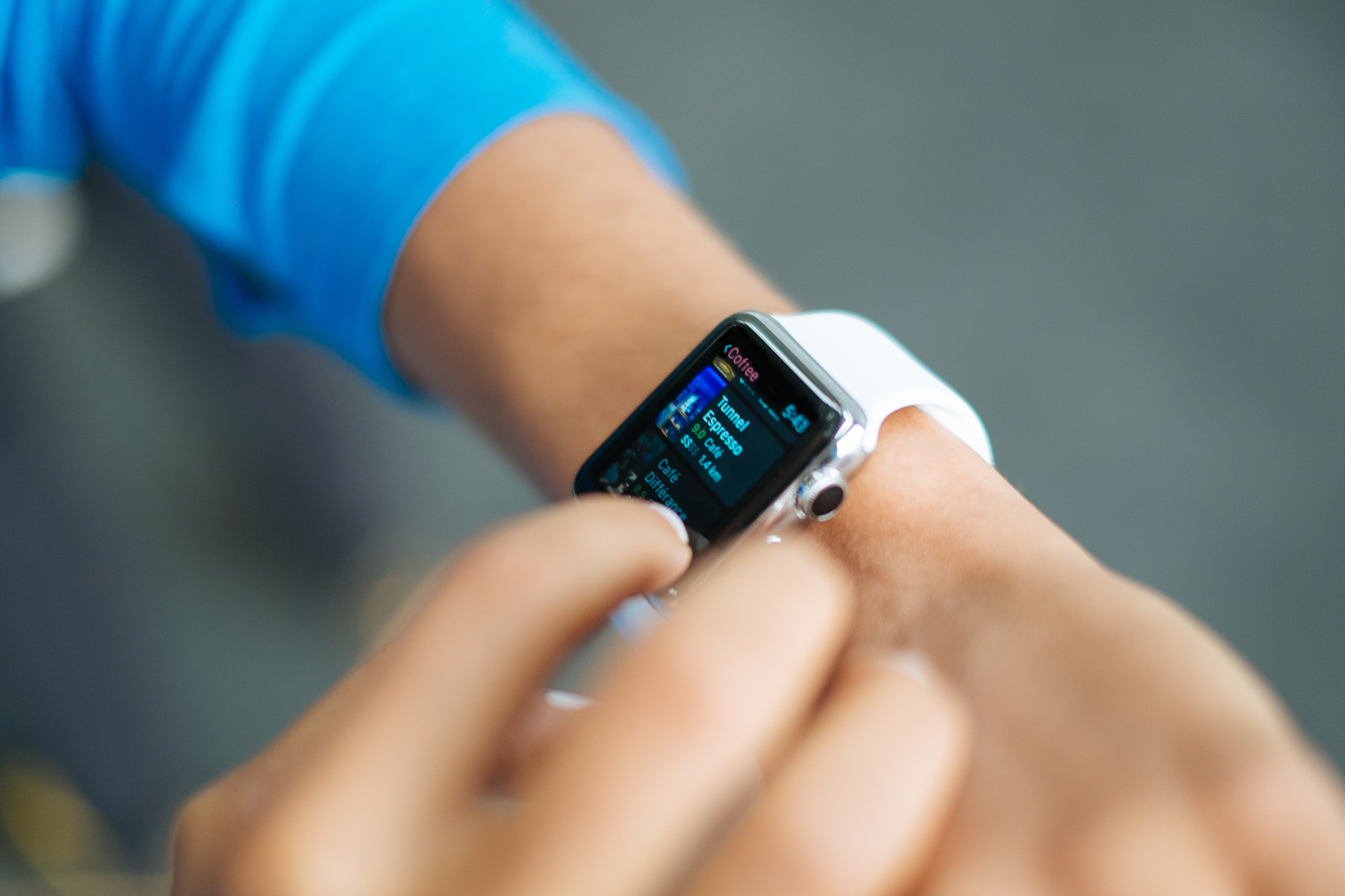 Crew 2015-06-15